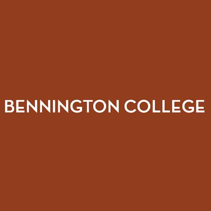 Bennington College logo